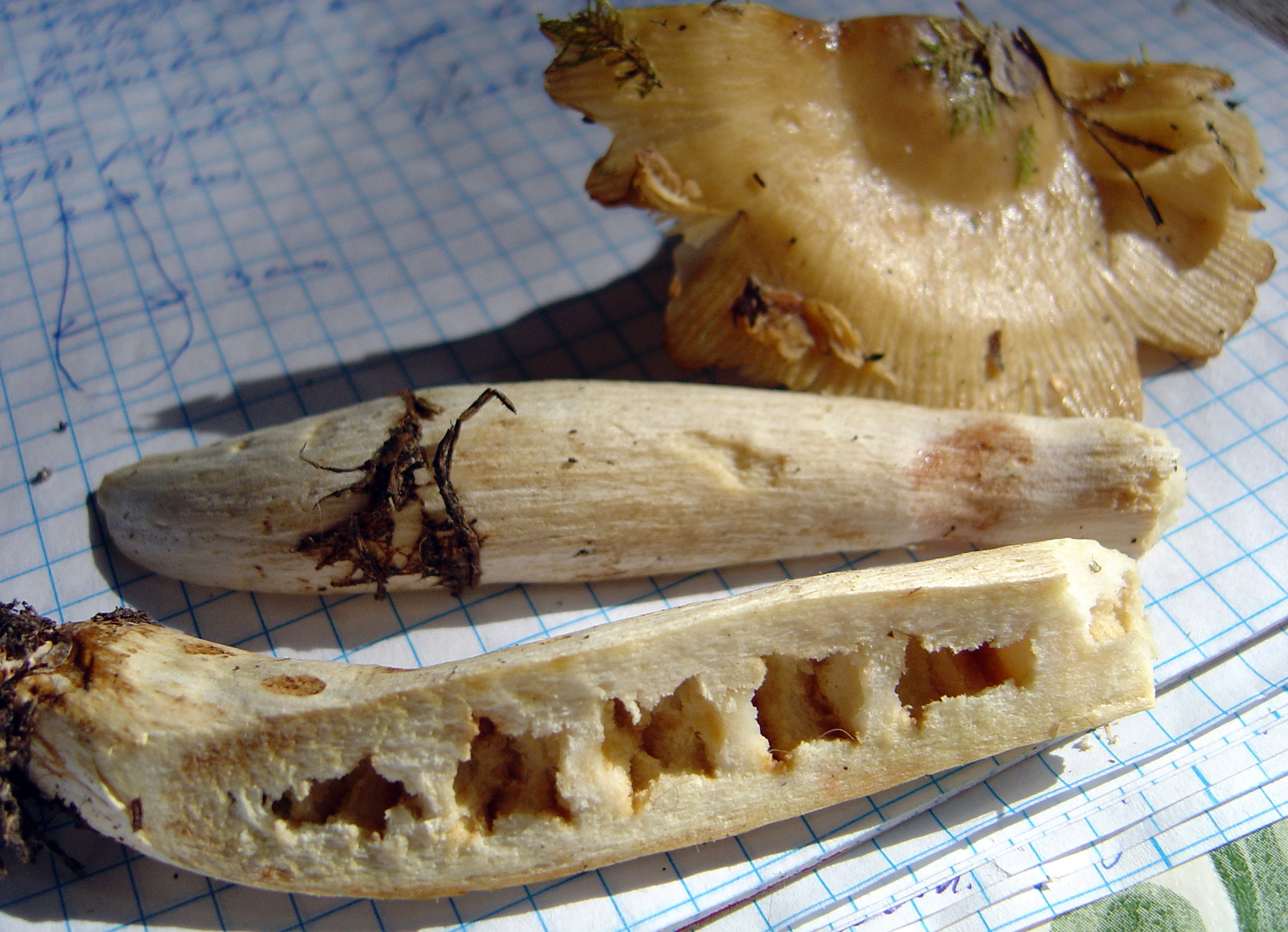 The mushroom Russula foetens Fr.